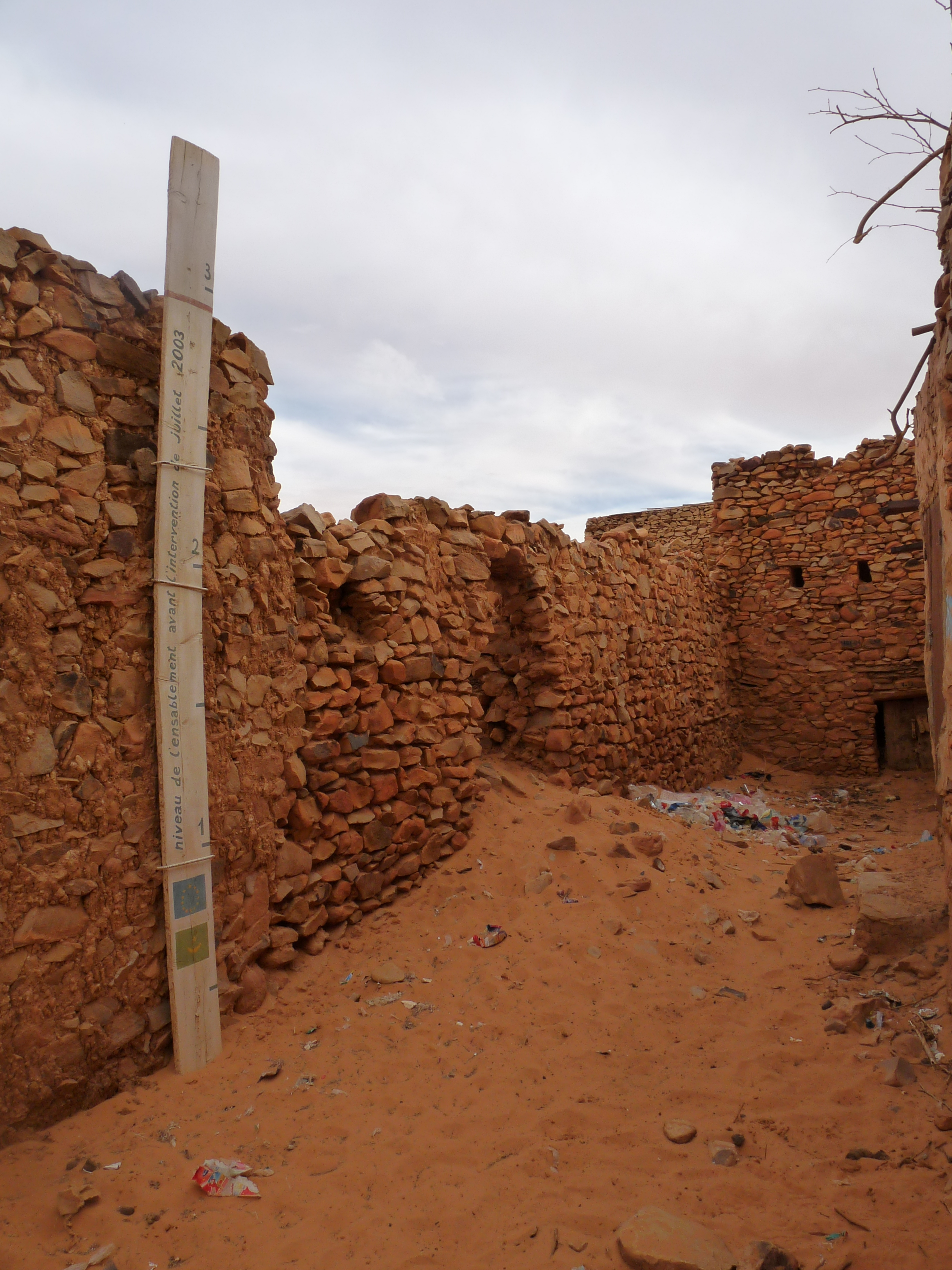 Chinguetti (Mauritania) threatened by sand